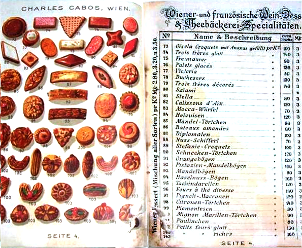 Page 4 from the catalogue of Charles Cabos chocolate company from Vienna, depicting on the left page the numbered products and on the right side the names of them.